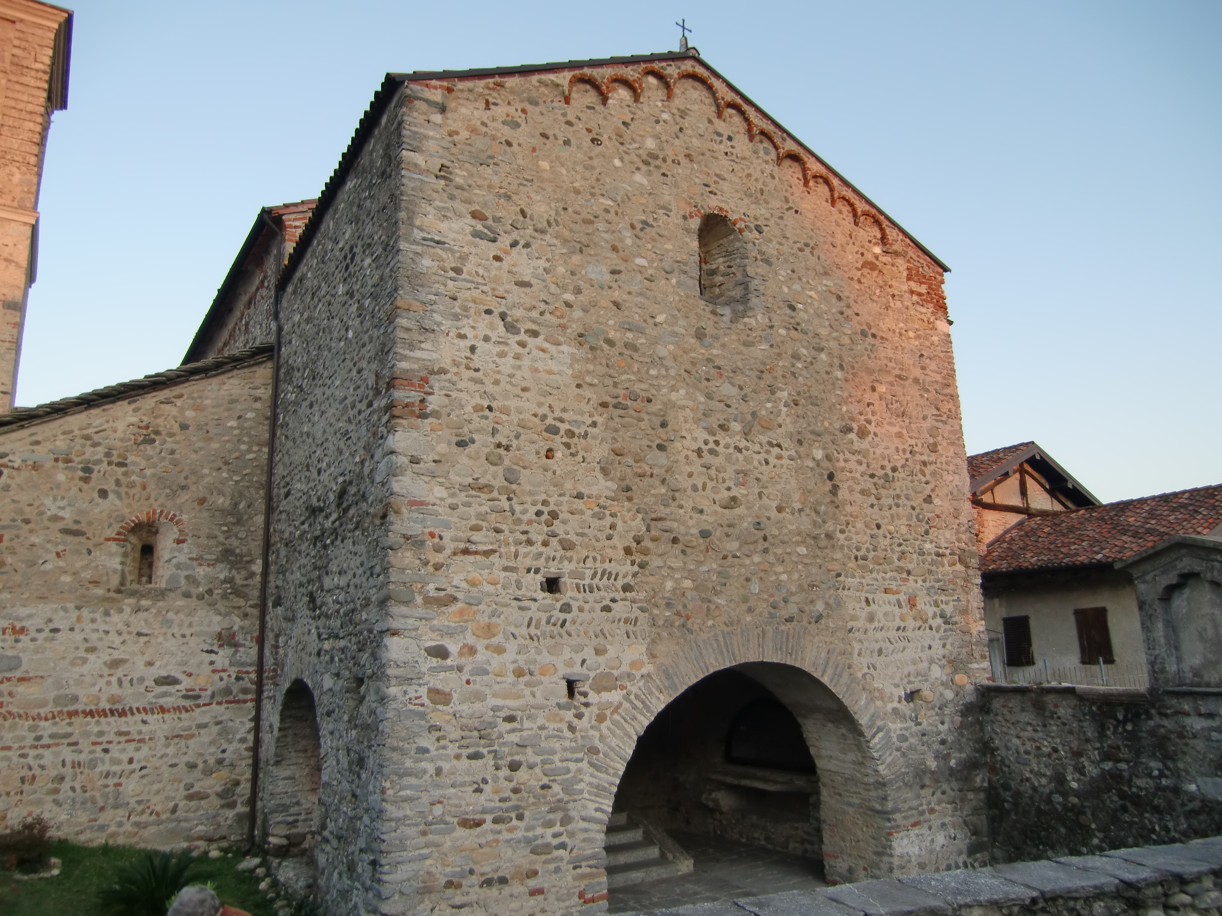 Pombia (Italy), church of San Vincenzo, esonartece (XI century)